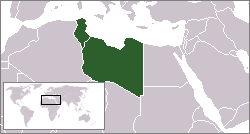 Map of The Federation of Arab Republics, 1972 to ca. 1977. For the flag, see Image:Flag_of_Egypt_1972.svg .